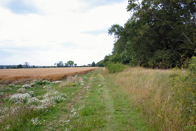 Black Ditches, near Cavenham. Shown on the OS map as an ancient trackway, only the eastern embankment remains, as can be seen in the northward-looking photo.